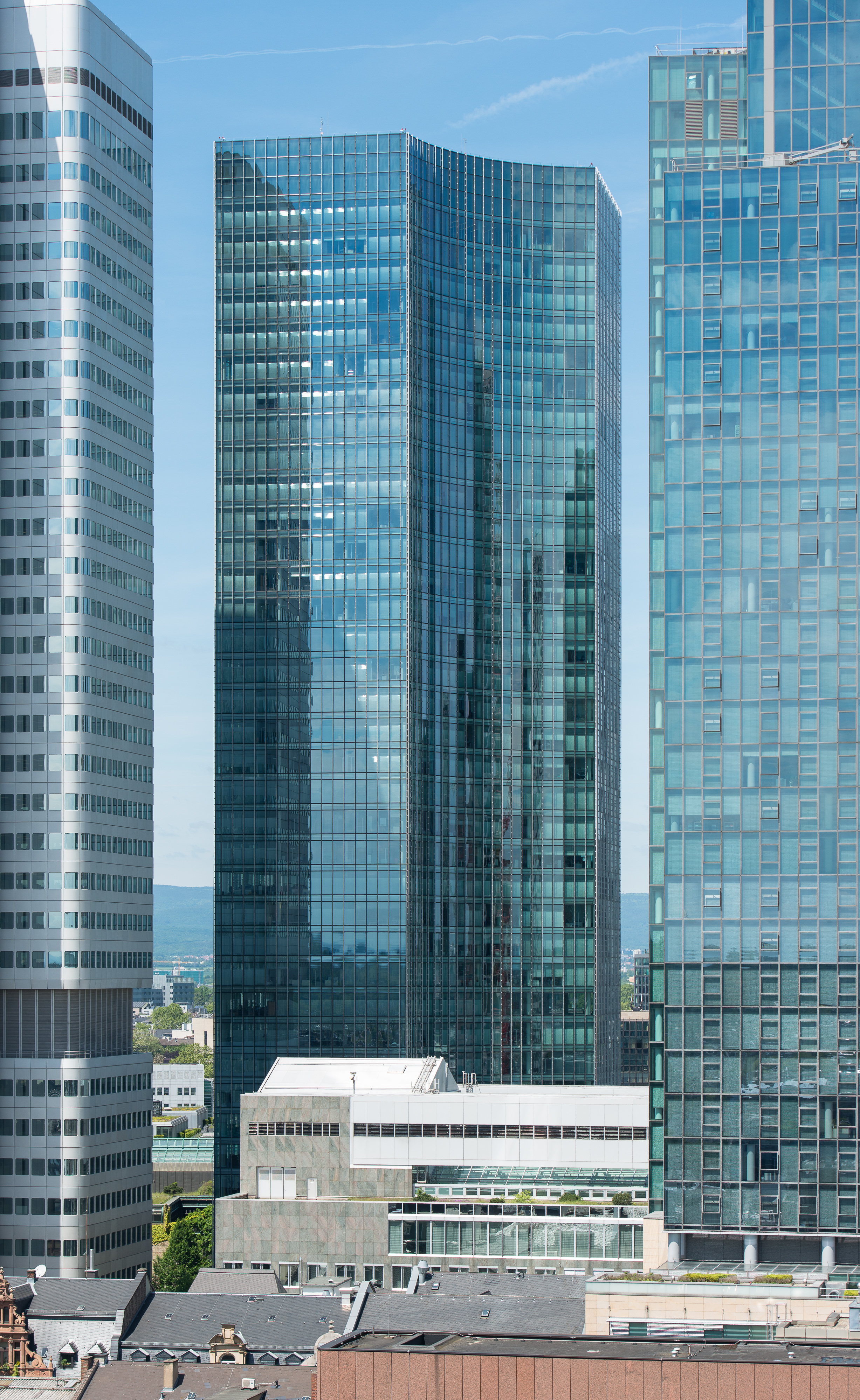 Frankfurt, Skyper tower, as seen from South between the Silver Tower and Gallileo.